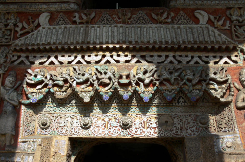 Yungang Grottos cave 9 dougong